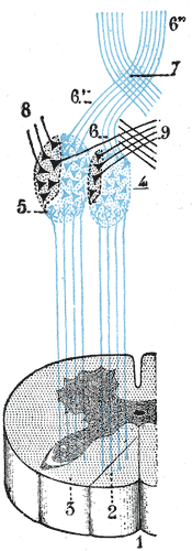 Superior terminations of the posterior fasciculi of the medulla spinalis. 1. Posterior median sulcus. 2. Fasciculus gracilis. 3. Fasciculus cuneatus. 4. Gracile nucleus. 5. Cuneate nucleus. 6, 6’, 6’’. Sensory fibers forming the lemniscus. 7. Sensory decussation. 8. Cerebellar fibers uncrossed (in black). 9. Cerebellar fibers crossed (in black).